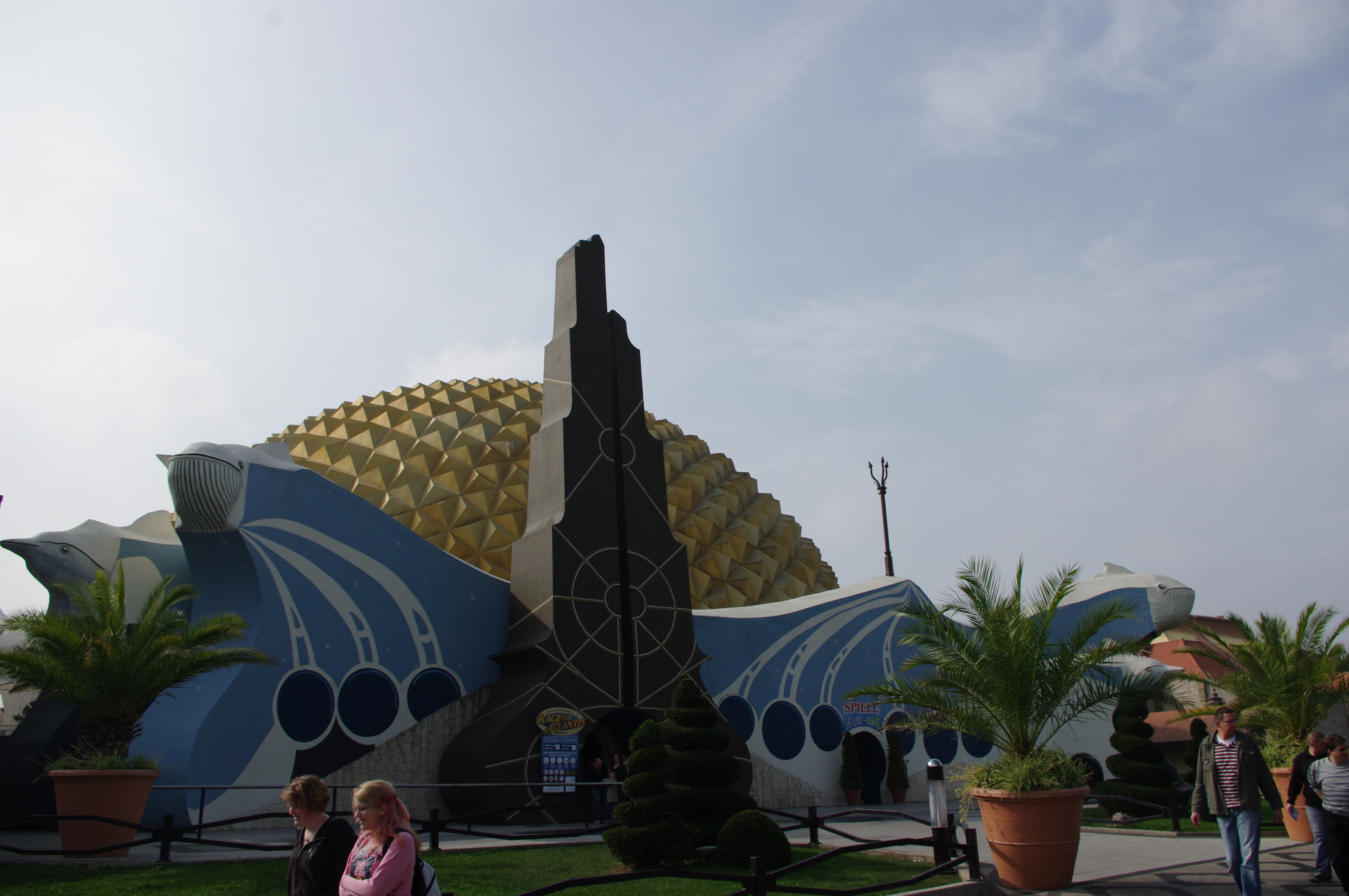 Race for Atlantis (IMAX theatre with motion simulators) in Phantasialand